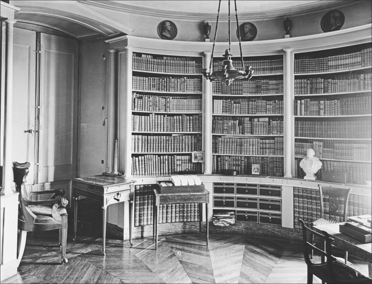 Library of La Fayette at La Grange, designed by Antoine Vaudoyer, c. 1800.